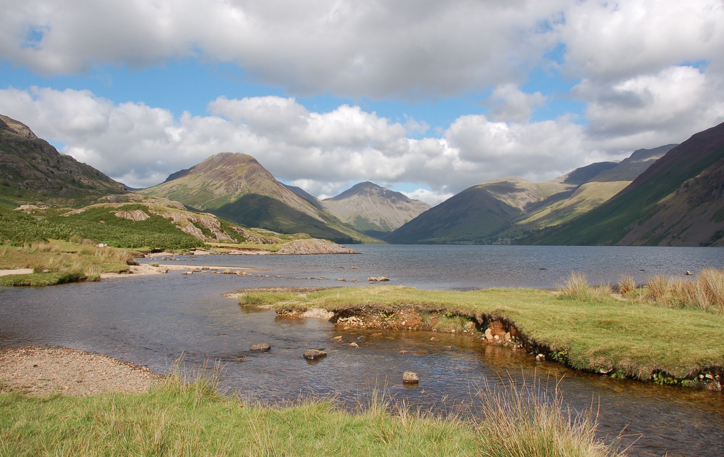 Description: Wastwater from Wastwater Author: Alfred Gay Source: Self Made Date: uploaded 19th April 2007 ( image taken 24th August 2006)